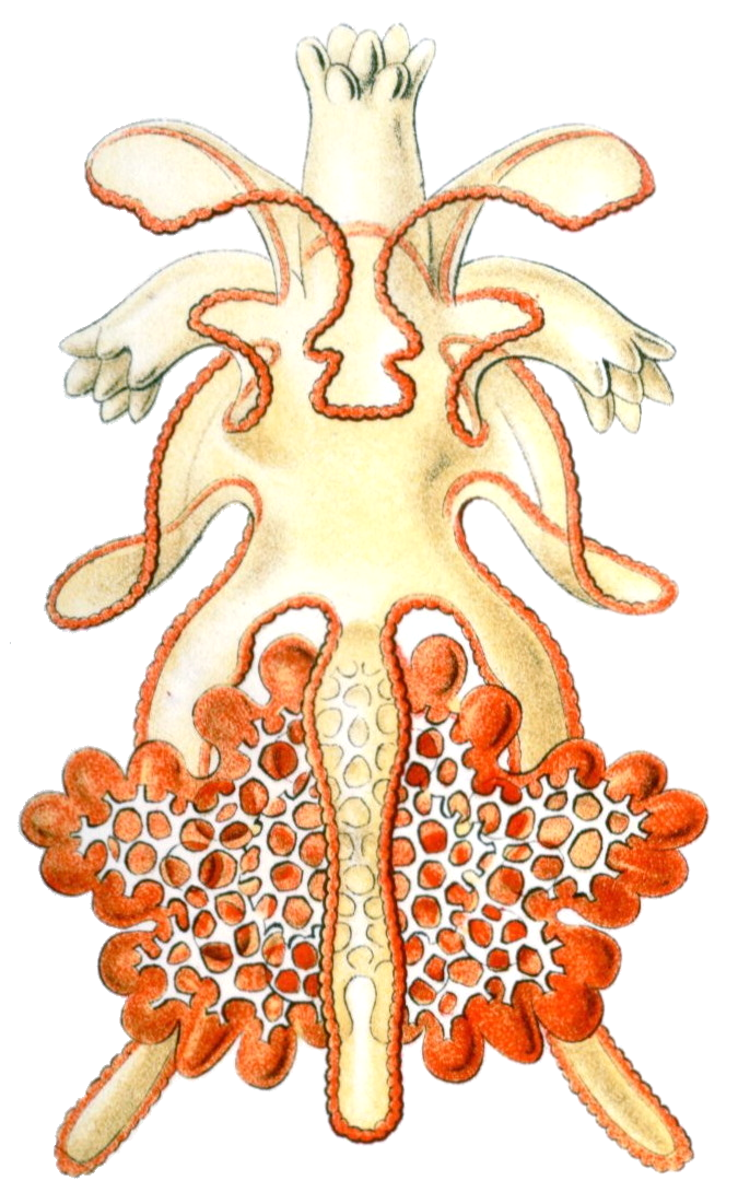 Asterias sp., young brachiolaria larva from the side